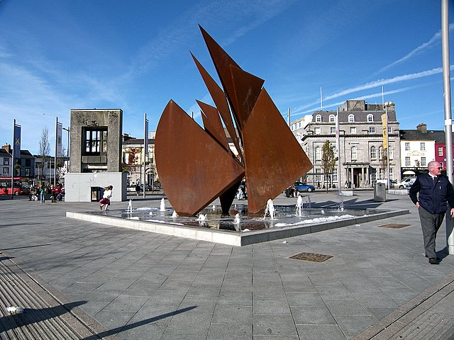 The Fountain (1984) by Eamonn O'Doherty , Eyre Square, Galway